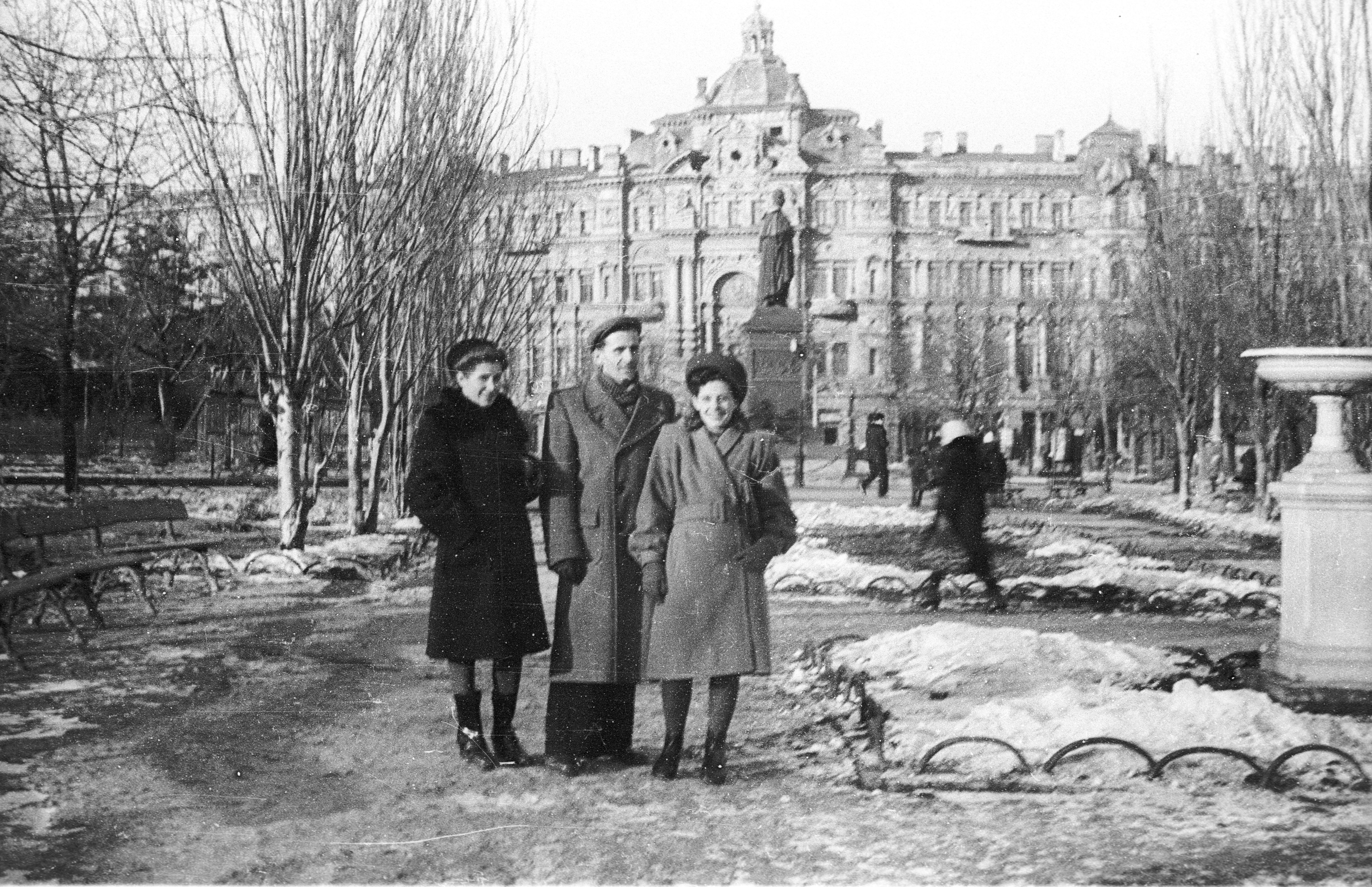 Cathedral Square in Odessa in 1950